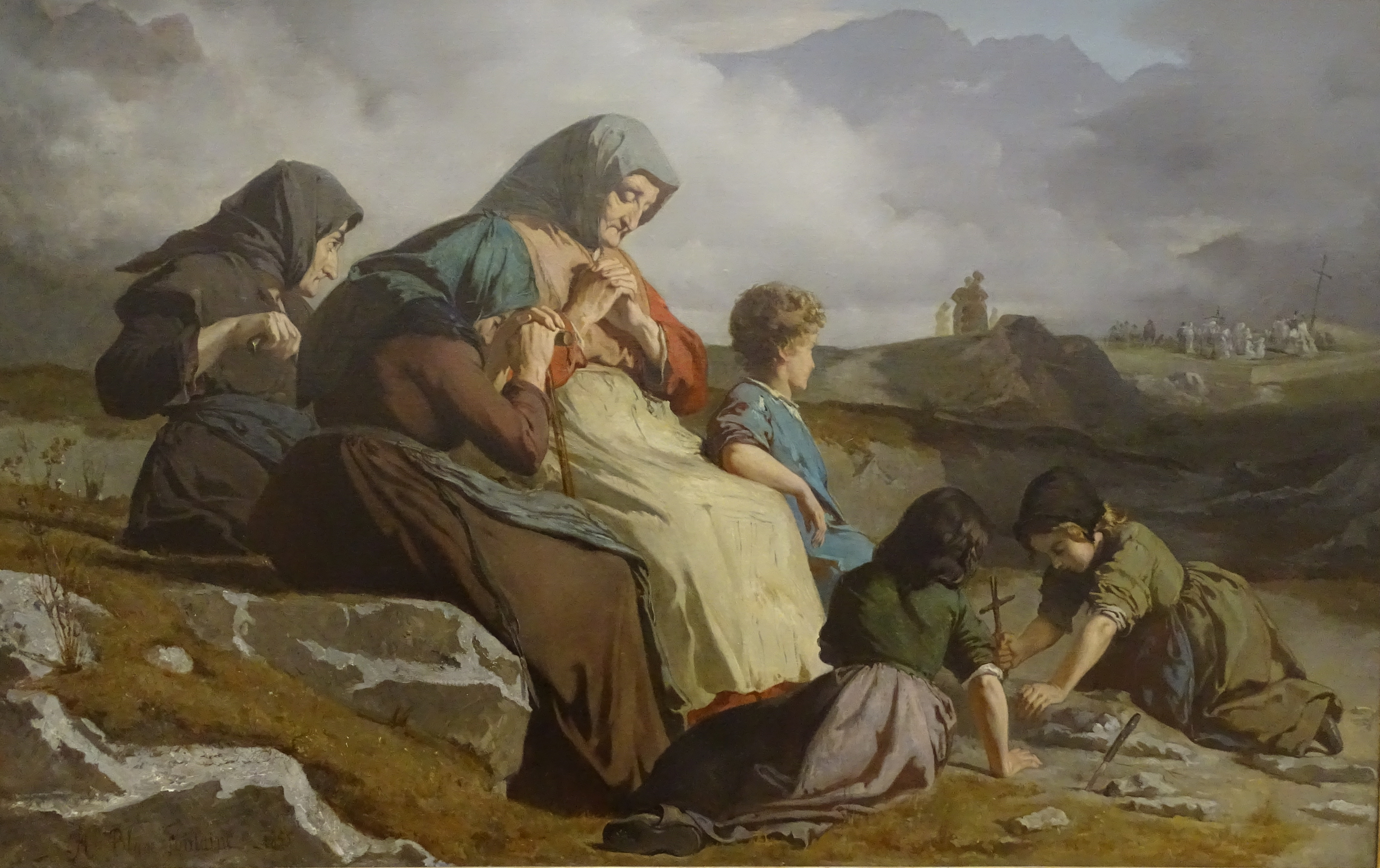 Souvenir de La Grave (Montagne du Dauphiné), peinture de Henri Blanc-Fontaine, 1855, musée de Grenoble